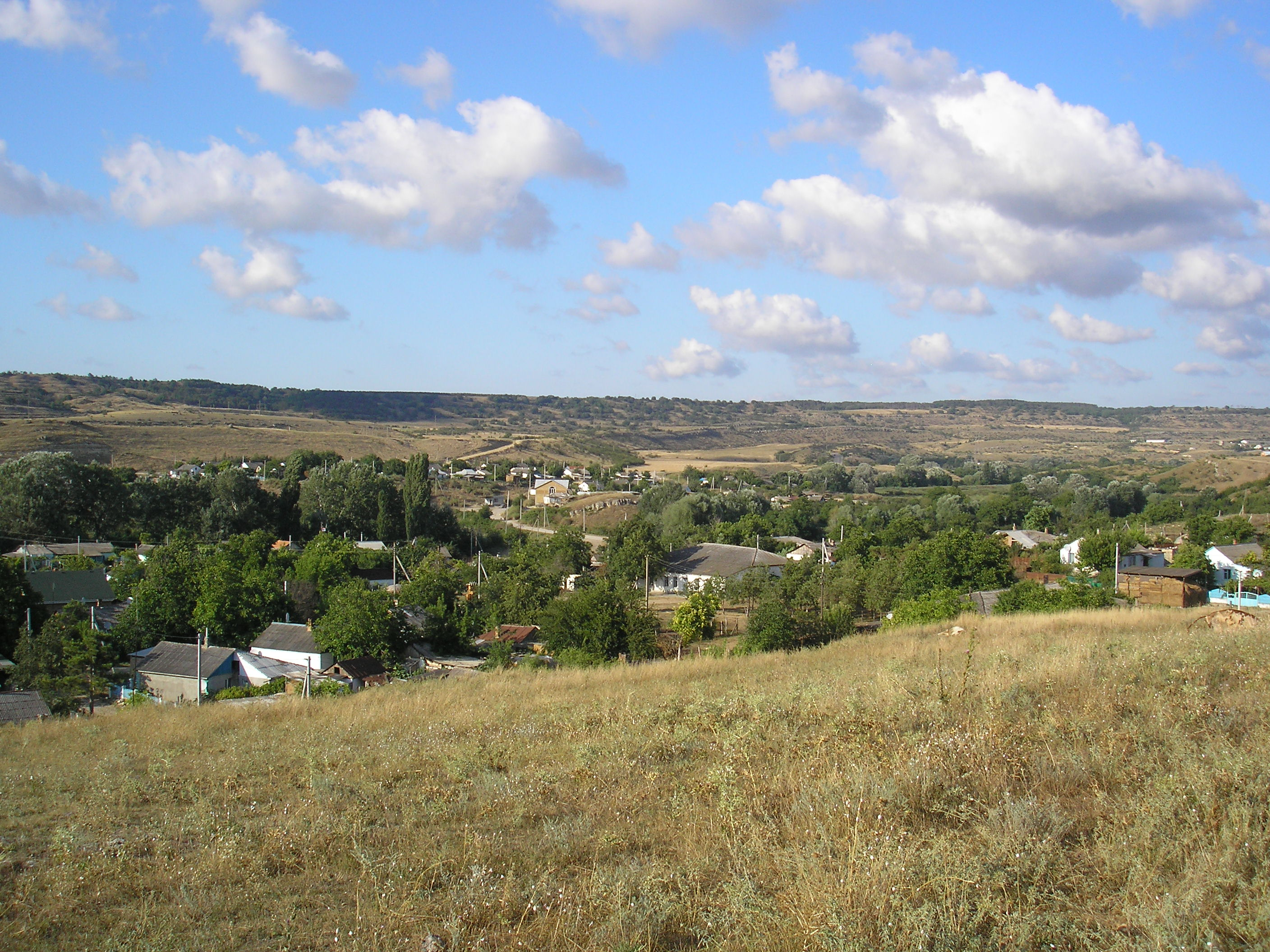 Village Krasnaya Zarya, Bakhchisaray district, Crimea